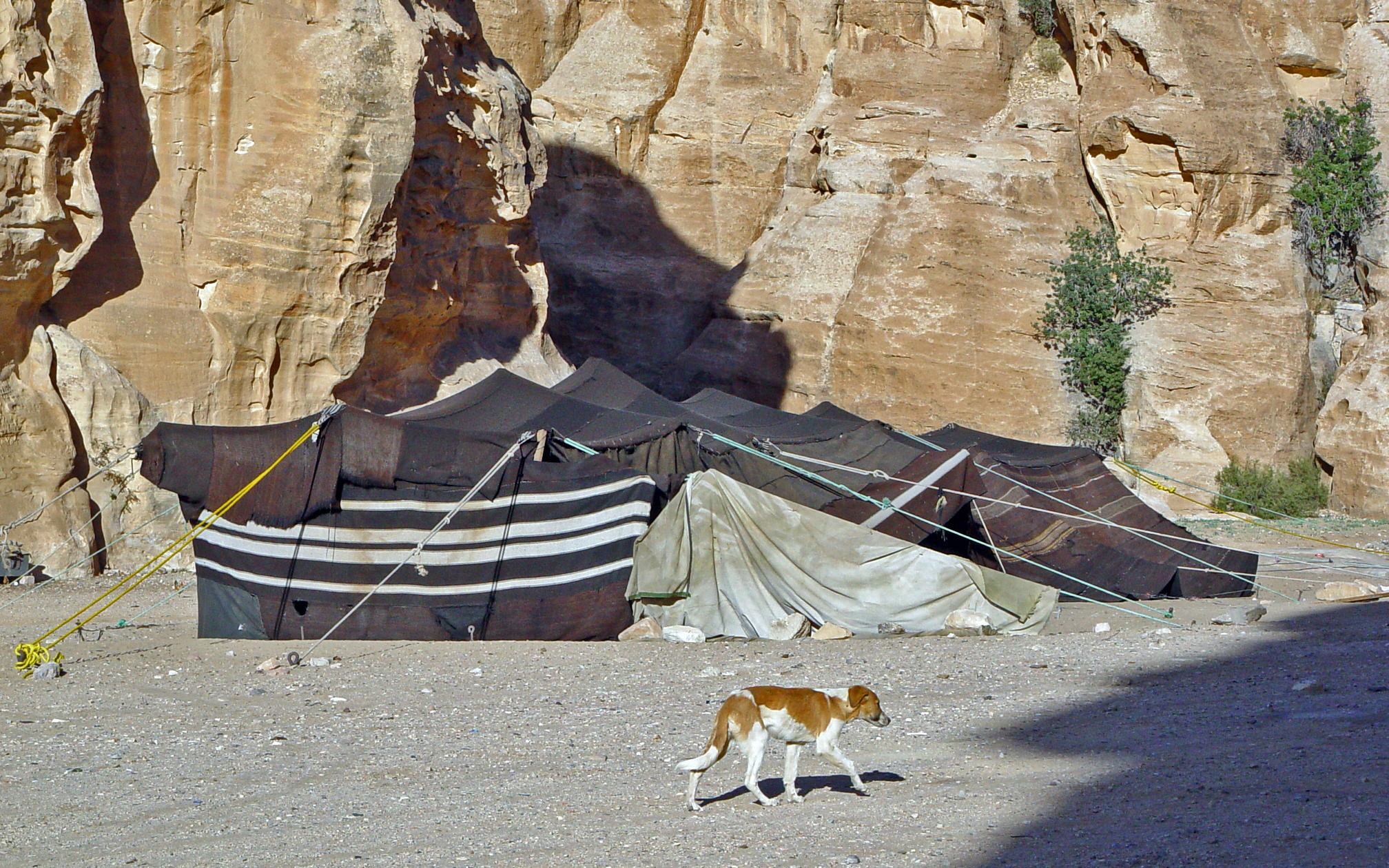 Bedouin tent in Petra (Jordan)